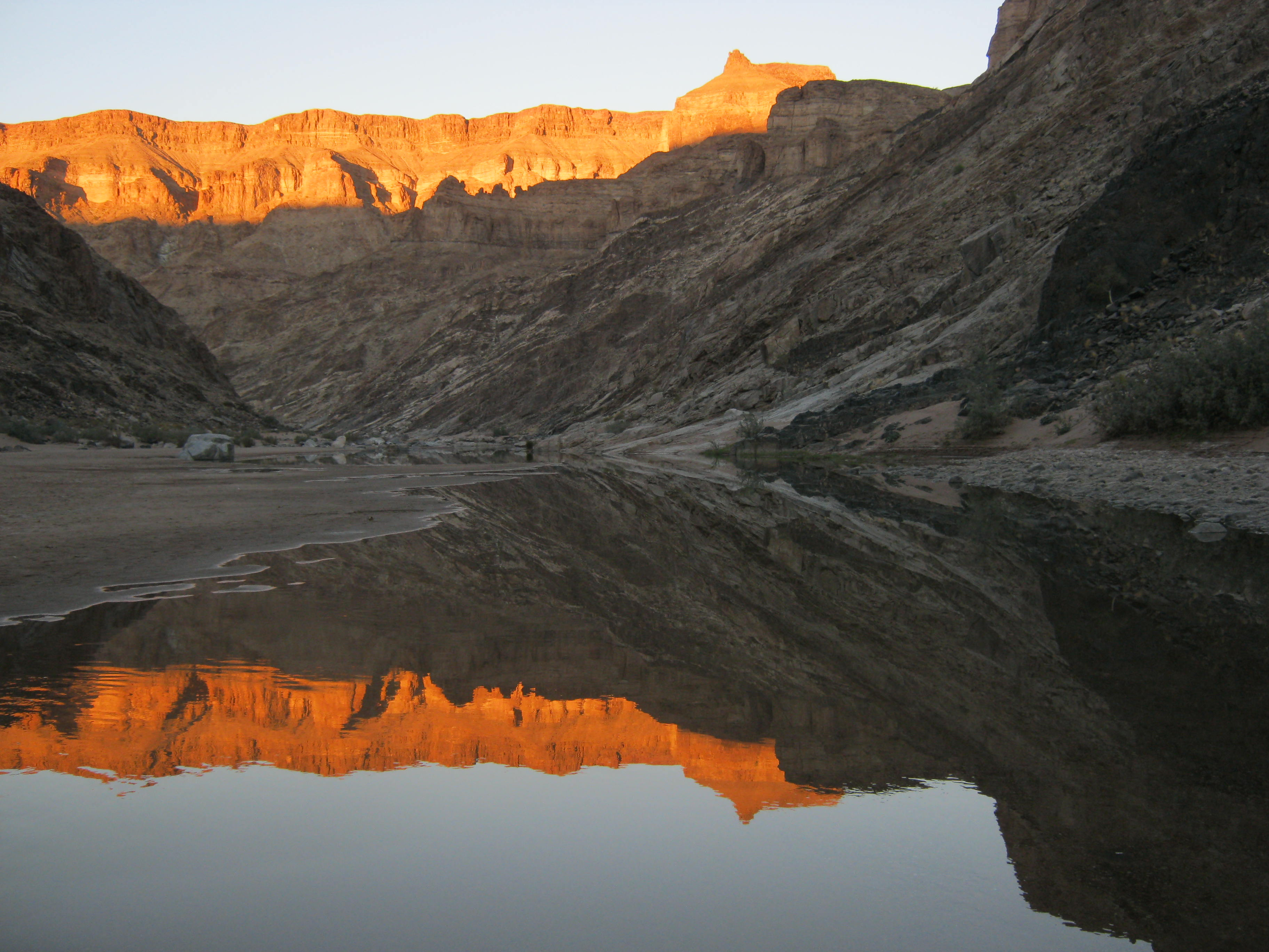 Towards Wild Fig Bend